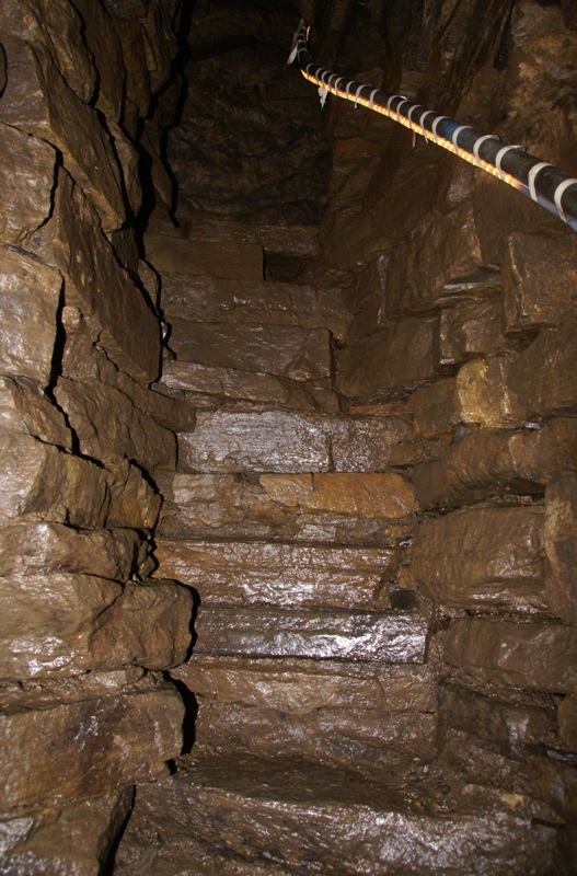 Mine Howe, Tankerness, Mainland, Orkneys, Scotland. Stairs as seen from the cistern.